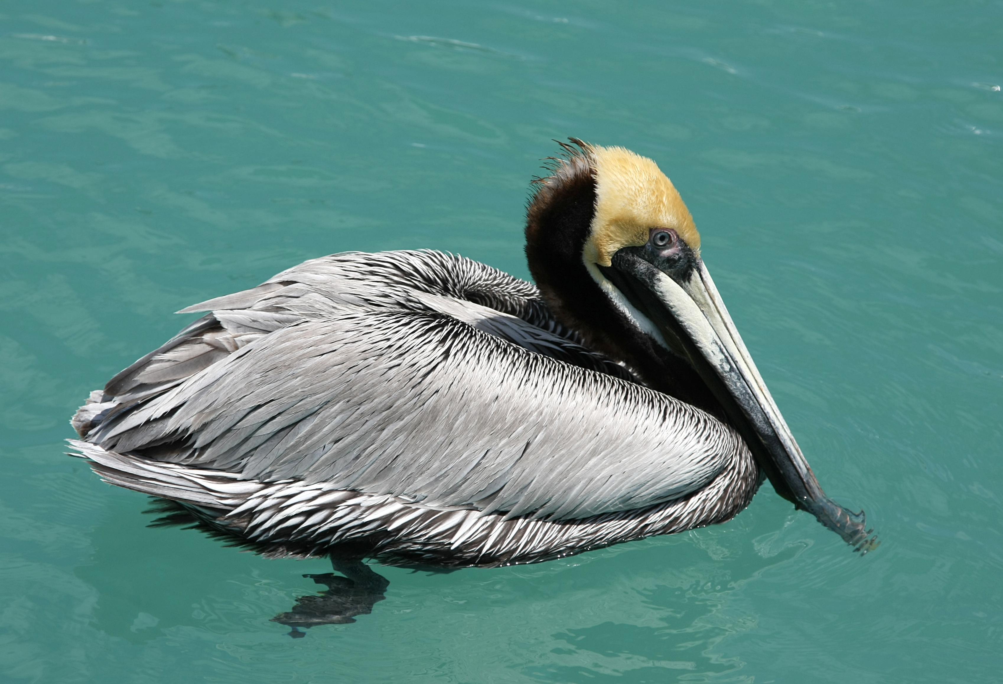 A brown pelican in Key West, Florida.